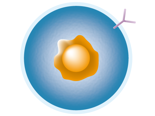 (B-cell). Images are from Togo picture gallery maintained by Database Center for Life Science (DBCLS).